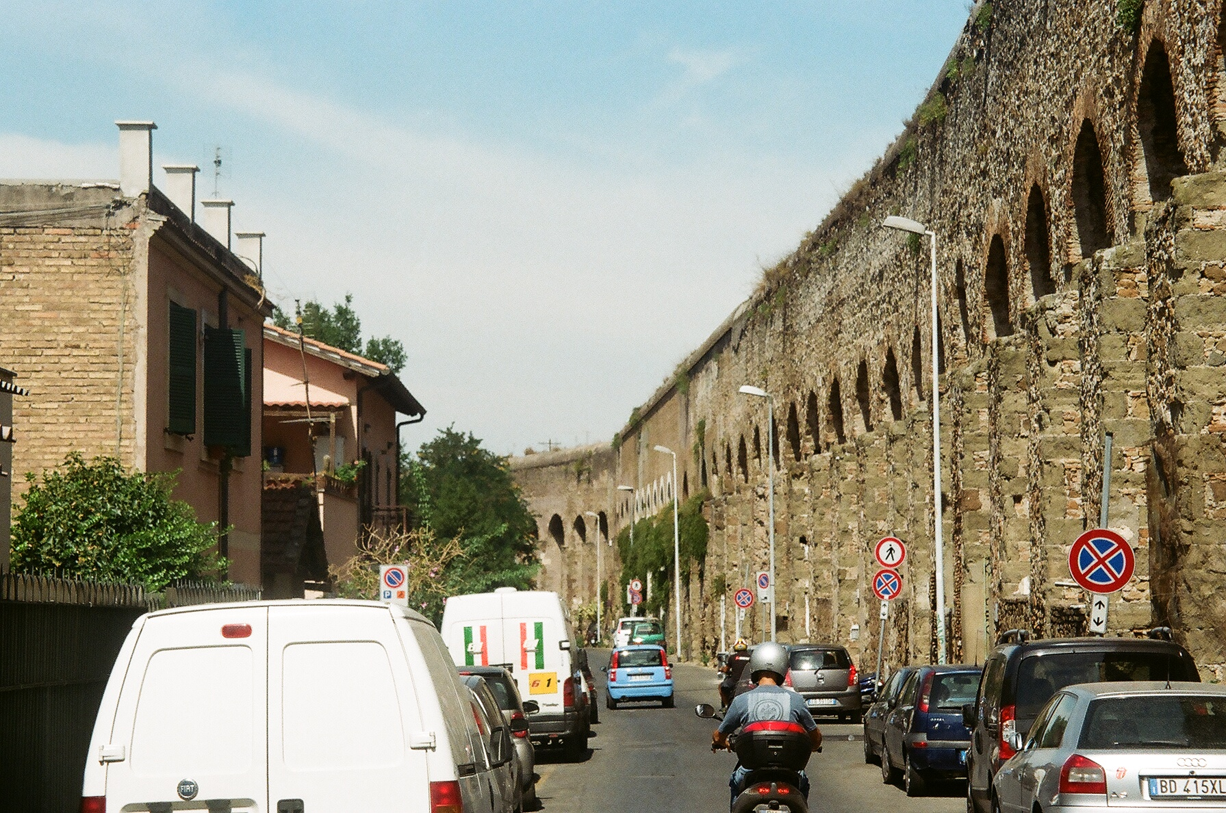 Aqua Felice at Via del Mandrione